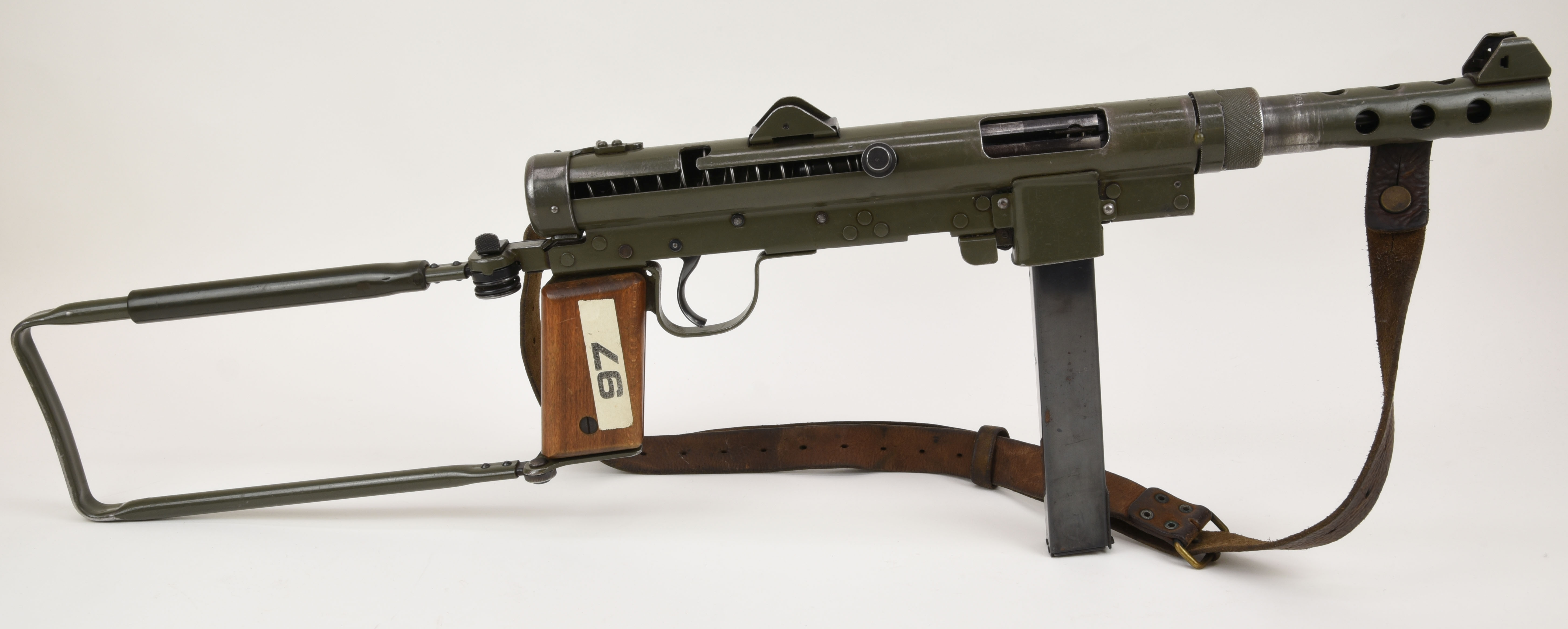 Kulsprutepistol m/45B (Kpist m/45B) 9x19mm, known in English as the Carl Gustaf m/45B submachine gun. This particular gun is painted green. From the collections of the Swedish Railway Museum.